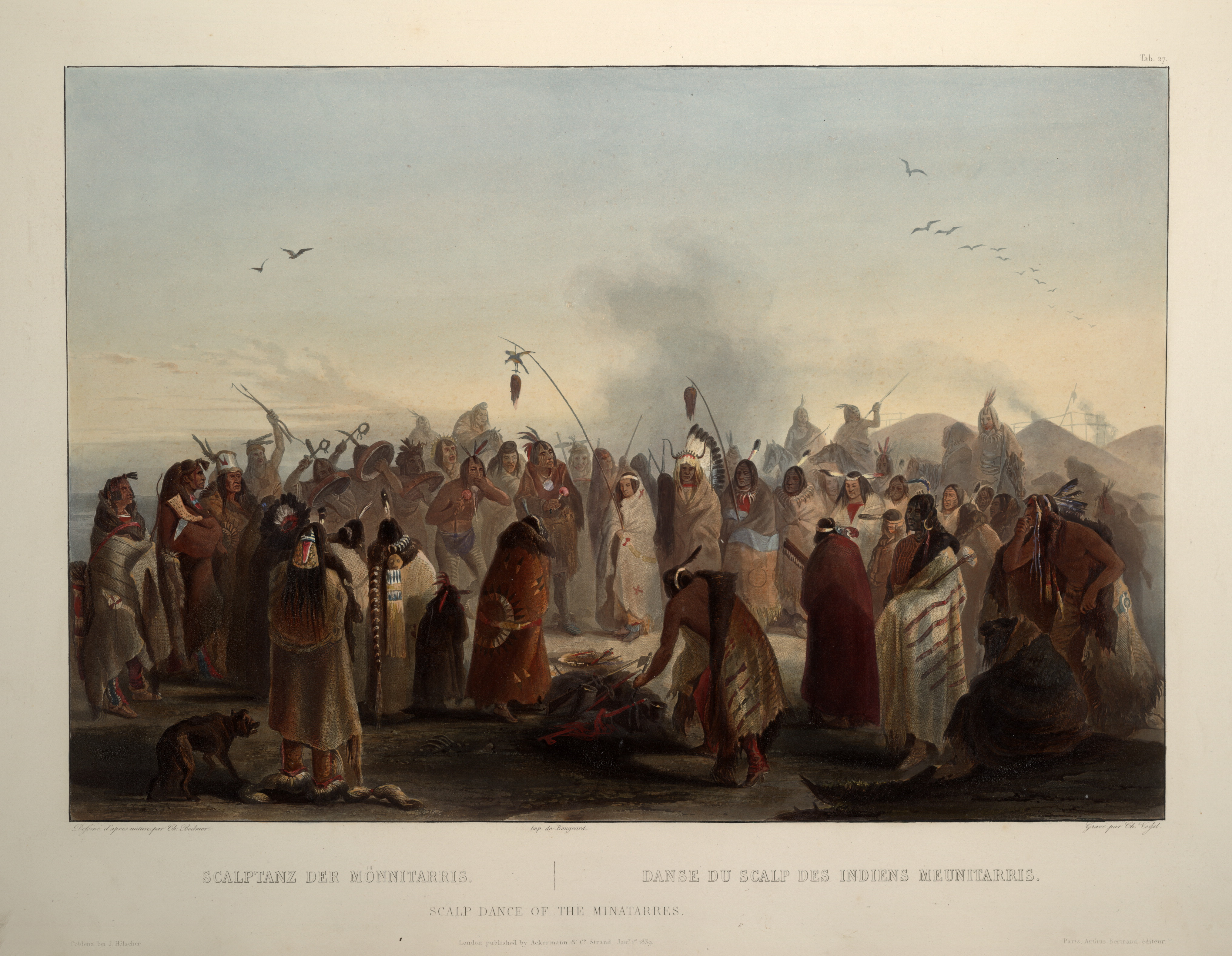 Scalp dance of the Minatarres